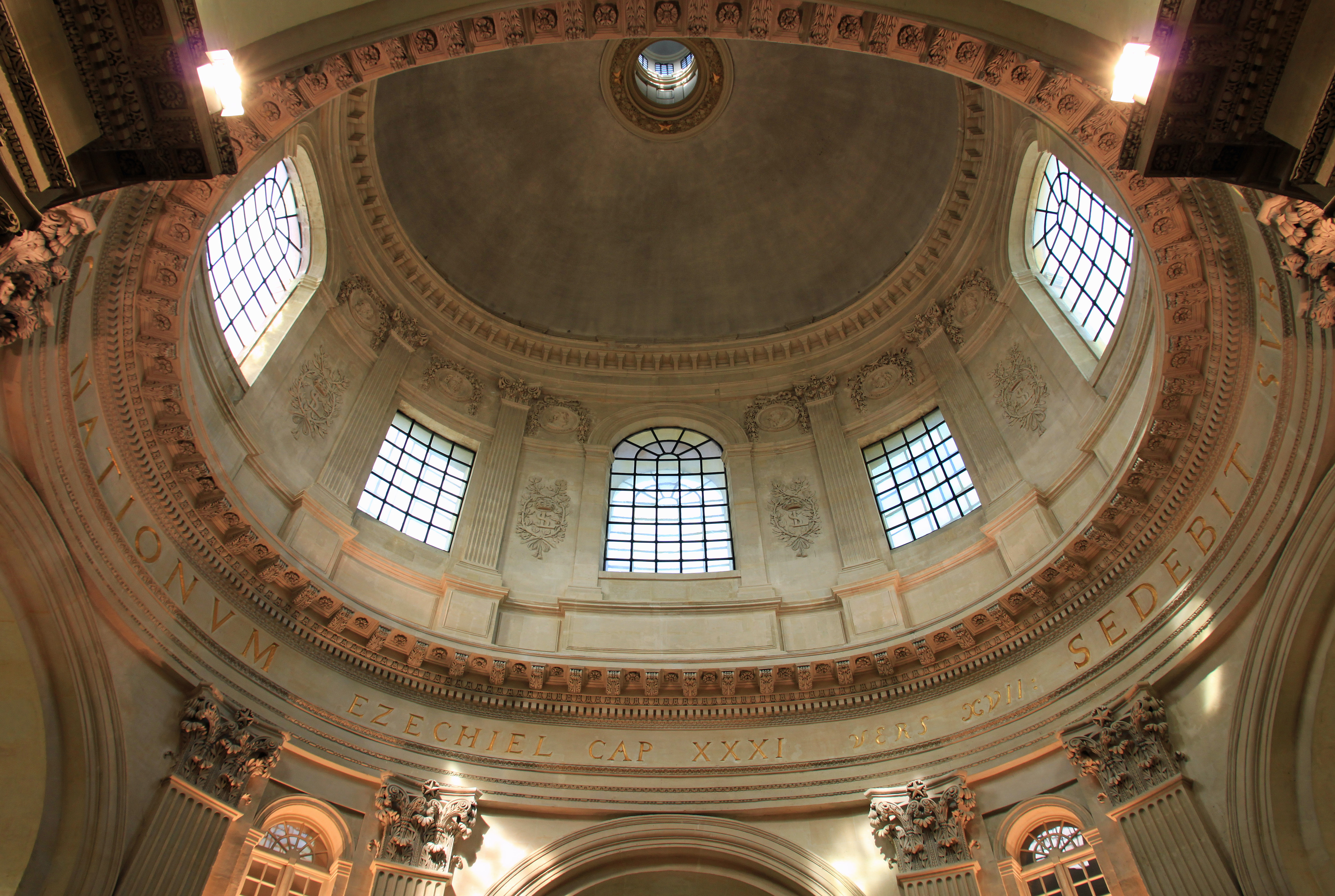 Cupola of the Collège des Quatre Nations, Paris. The writing in golden letters around the base of the cupola is: SEDEBIT SVB UMBRACULO EJVS IN MEDIO NATIONUM EZECHIEL CAP XXXI vers x v i i